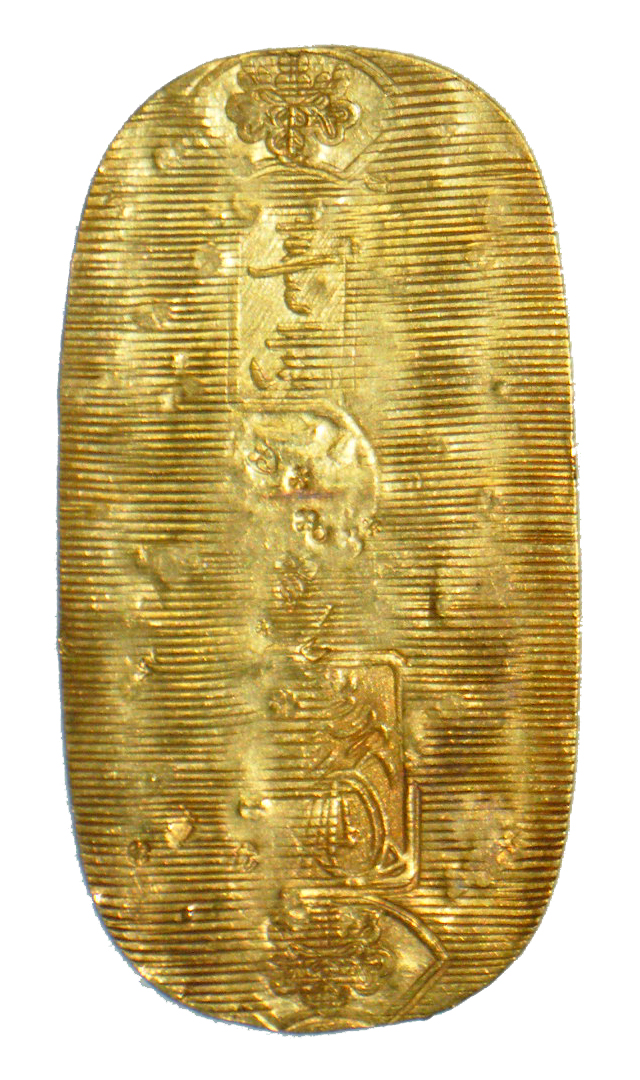 Keicho-koban